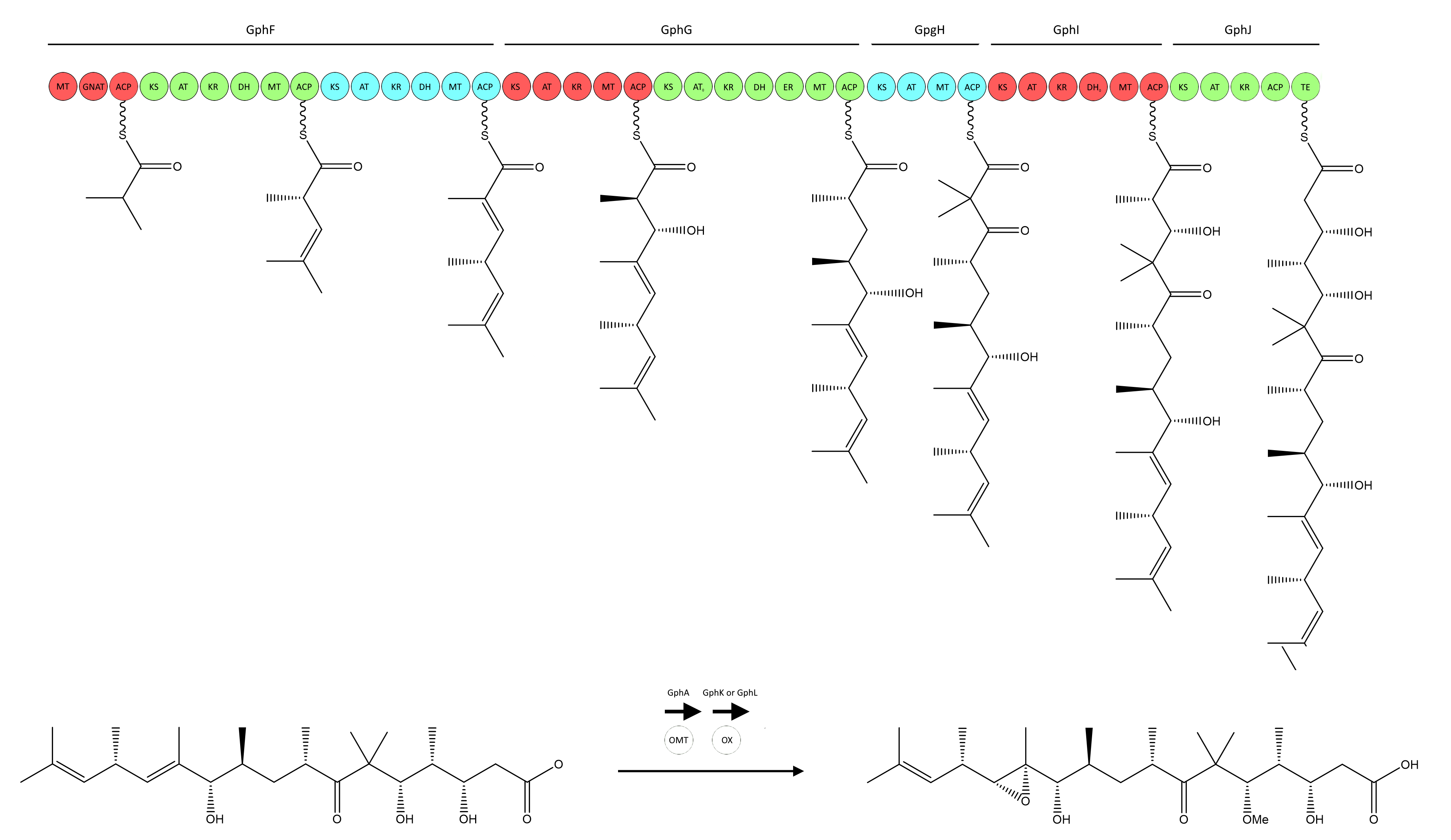 UPDATED FOR tailoring